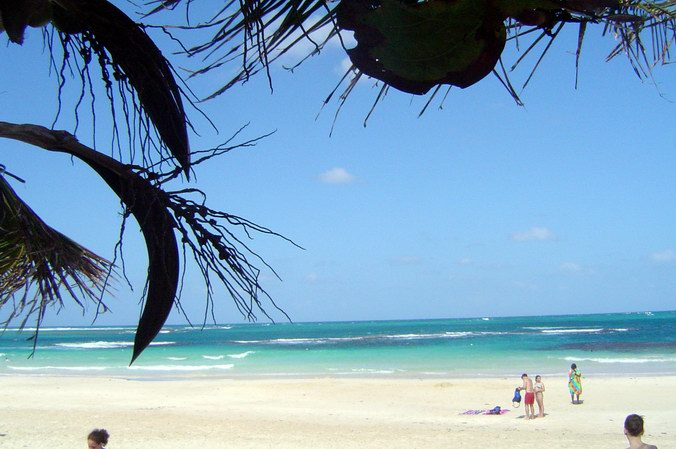 Flamenco Beach, Culebra, Puerto Rico